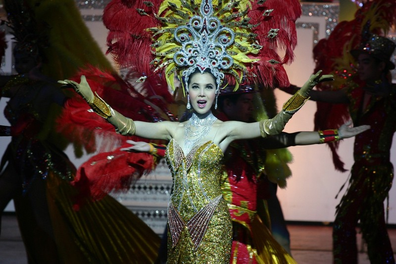 This was captured from my trip to Pattaya, Bangkok. This is called alcazar show, a very famous show where local folks perform a dance show wearing traditional Thai dress.